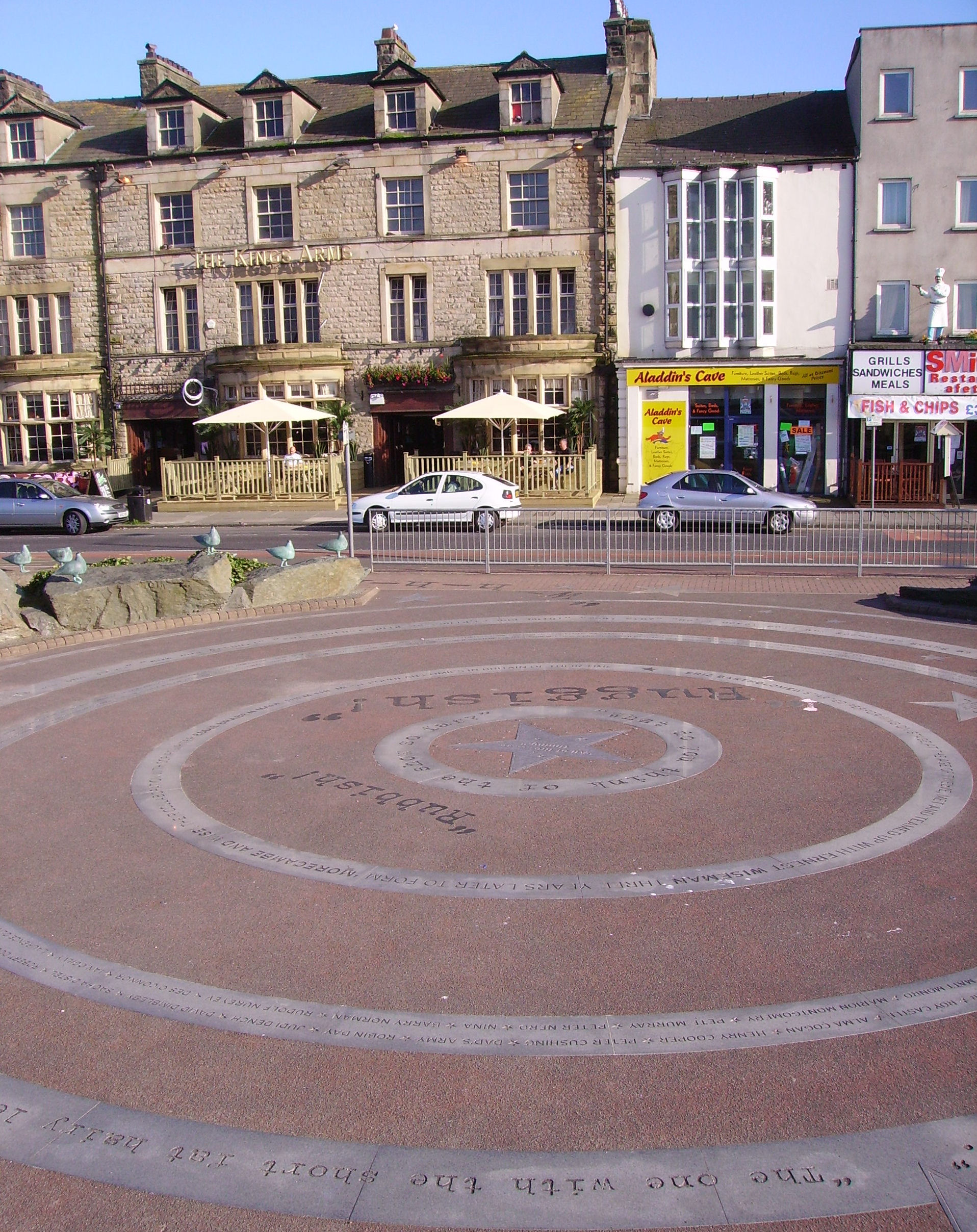 view of Morecambe, United Kingdom